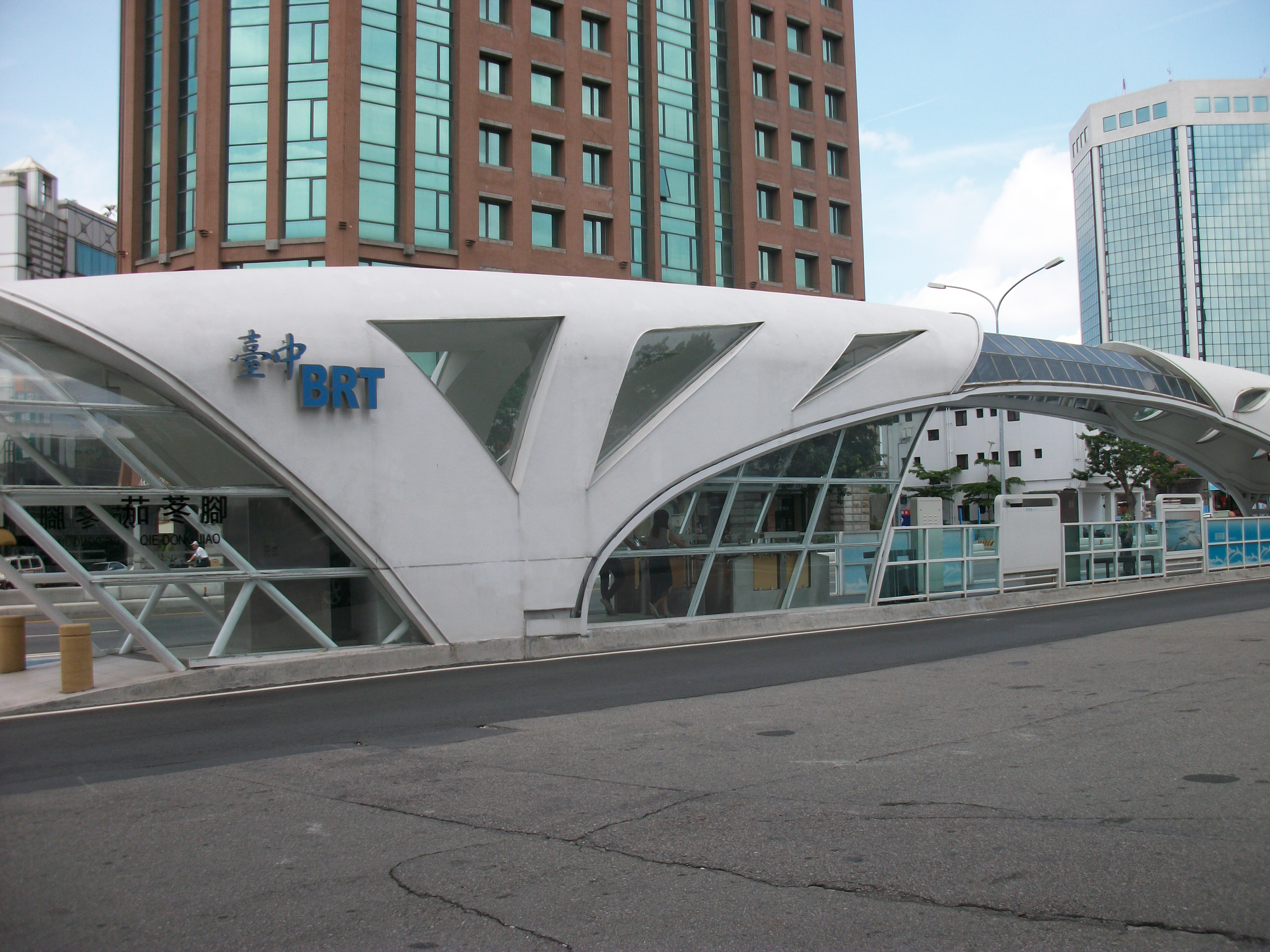 Taichung BRT Blue Line Qie Dong Jiao Station